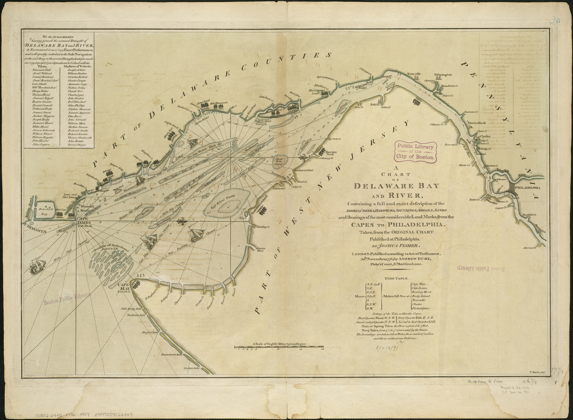 Zoom into this map at . Author: Fisher, Joshua Publisher: Dury, Andrew Date: 1776 Location: Delaware Bay (Del. and N.J.), Delaware River (N.Y.-Del. and N.J.) Dimension 45x69cm Scale: ca. 1:275,000 Call Number: G3832.D4P5 1776 .F57